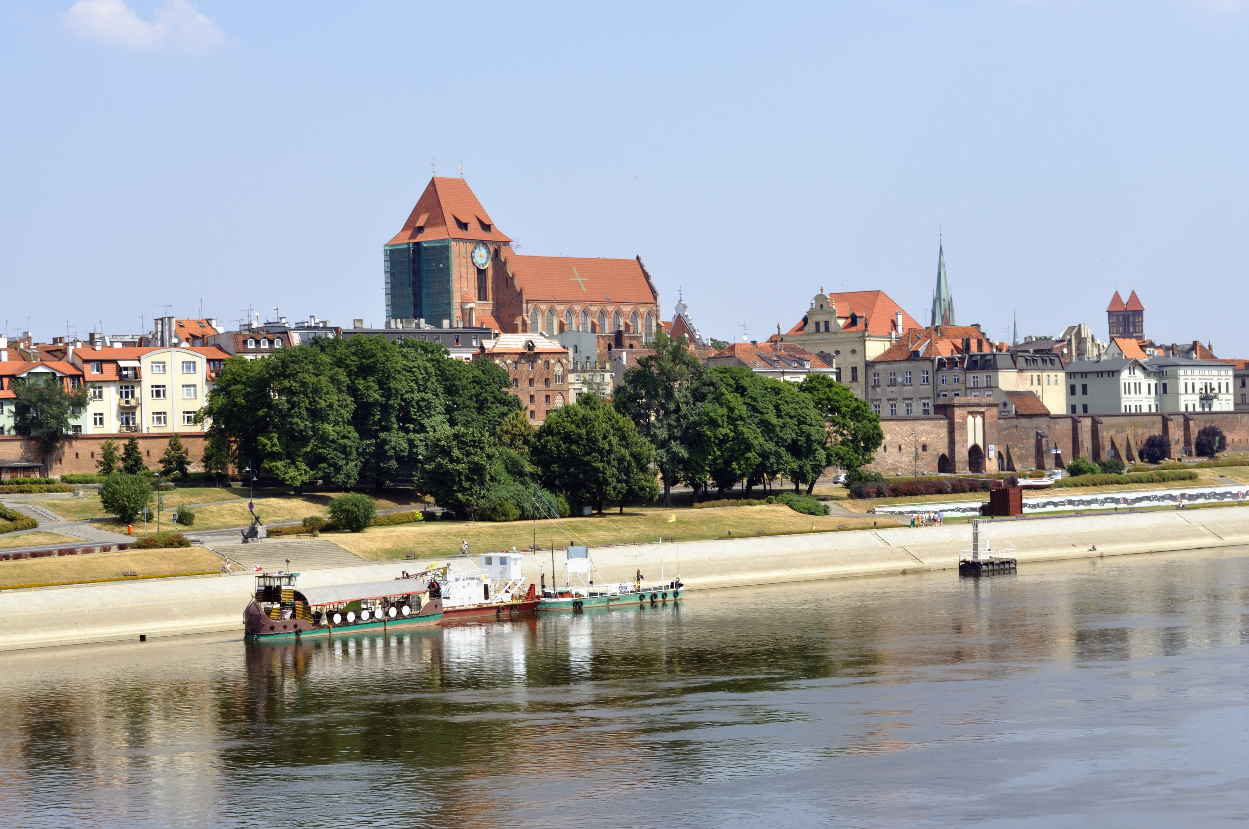 Picture taken in Toruń after Wikimania 2010 conference.